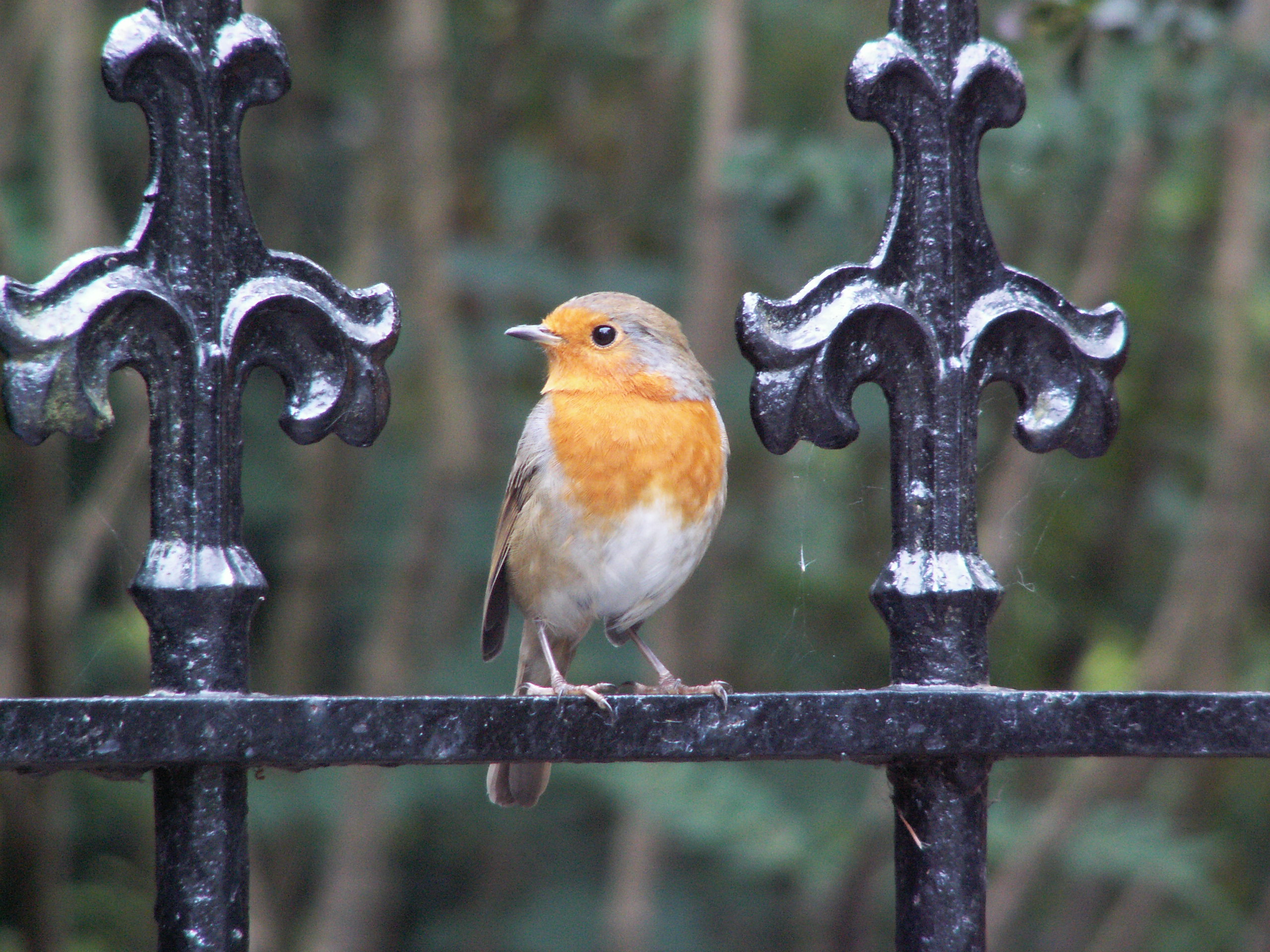 Robin (Erithacus rubecula). Photo taken in Devon, England.Devon Robin